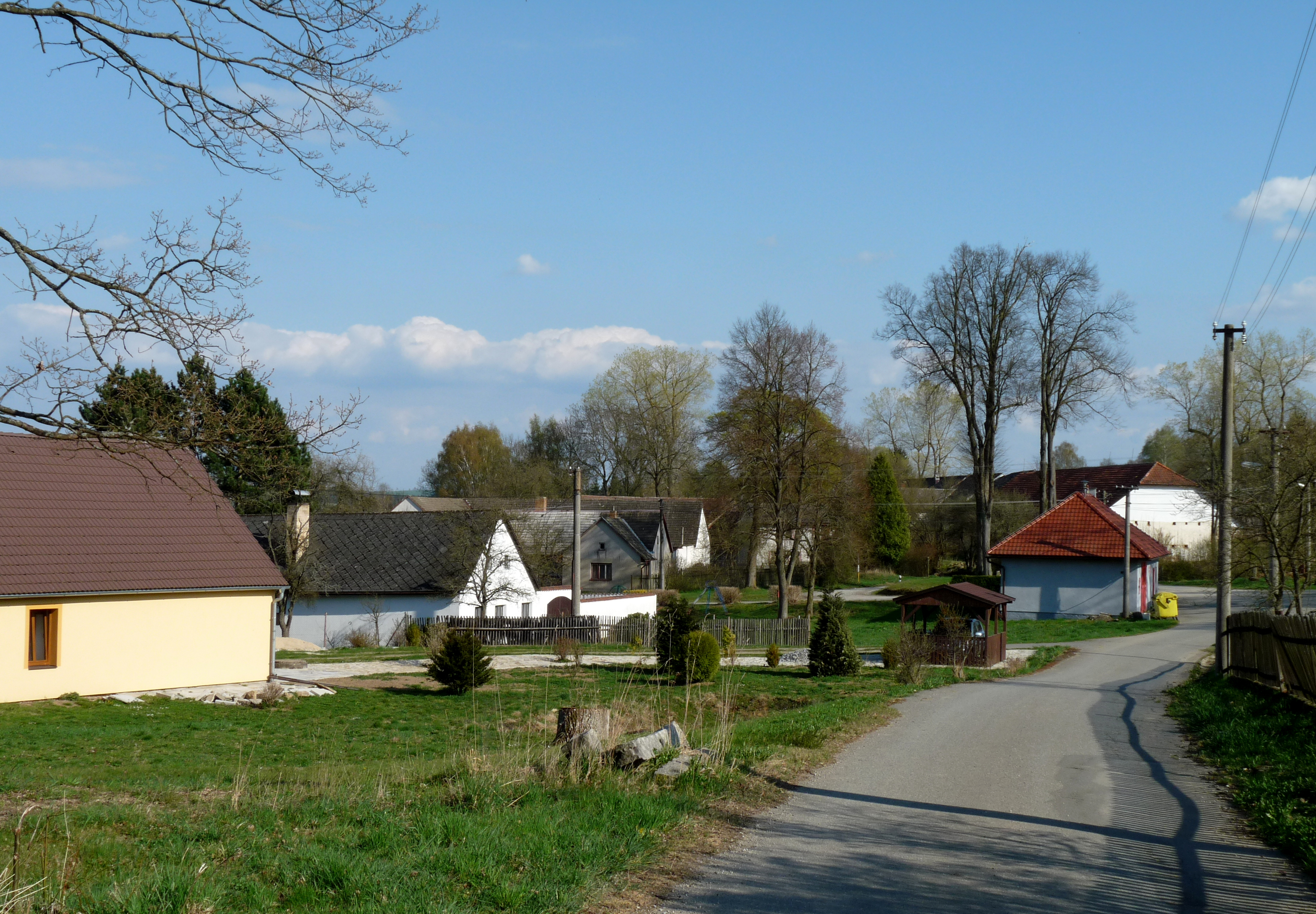 View of the centre of the village of Vlčetínec, Jindřichův Hradec District, South Bohemian Region, Czech Republic.